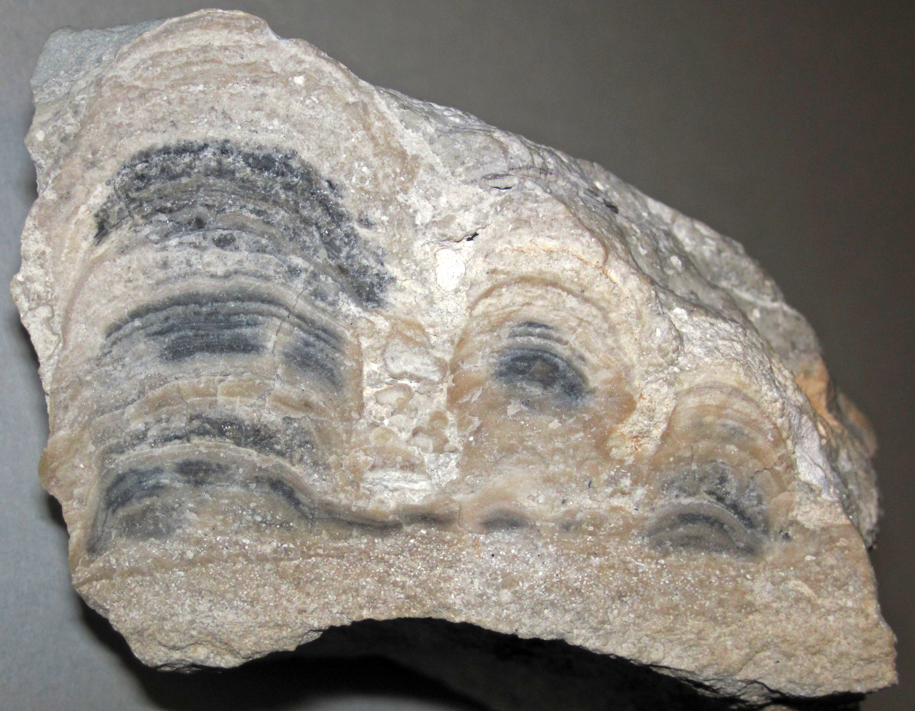 Stromatolites from the Eocene of Utah, USA. (~5.9 centimeters across at its widest along the base) Stromatolites are layered structures built up by mats of cyanobacteria (= blue-green bacteria, often incorrectly called “blue-green algae”). Stromatolites are fairly common in portions of the shallow-water marine & nonmarine fossil record, but they also occur in a few modern localities (e.g., Shark Bay along coastal Western Australia). The examples shown here grew during the Eocene in an ancient lake in Utah. Stratigraphy: Green River Formation, Eocene Locality: unrecorded site (likely a roadcut) in Utah, USA See info. at